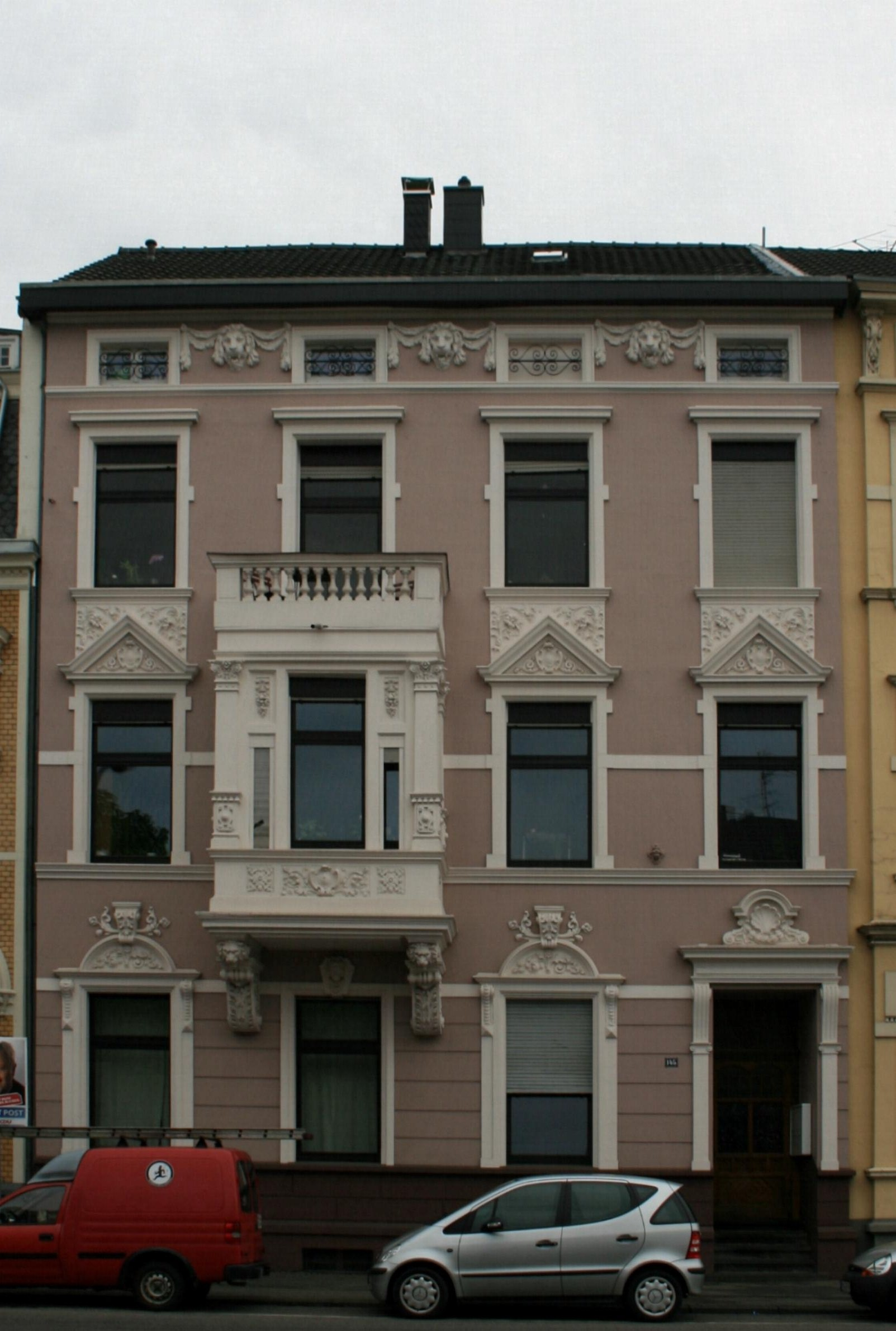 Cultural heritage monument No. V 023 in Mönchengladbach